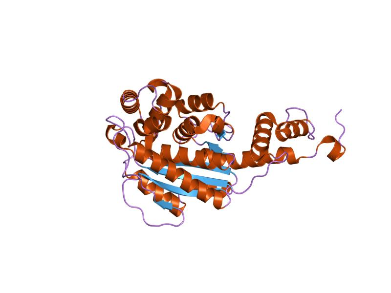 Cartoon representation of the molecular structure of protein registered with 1j33 code.